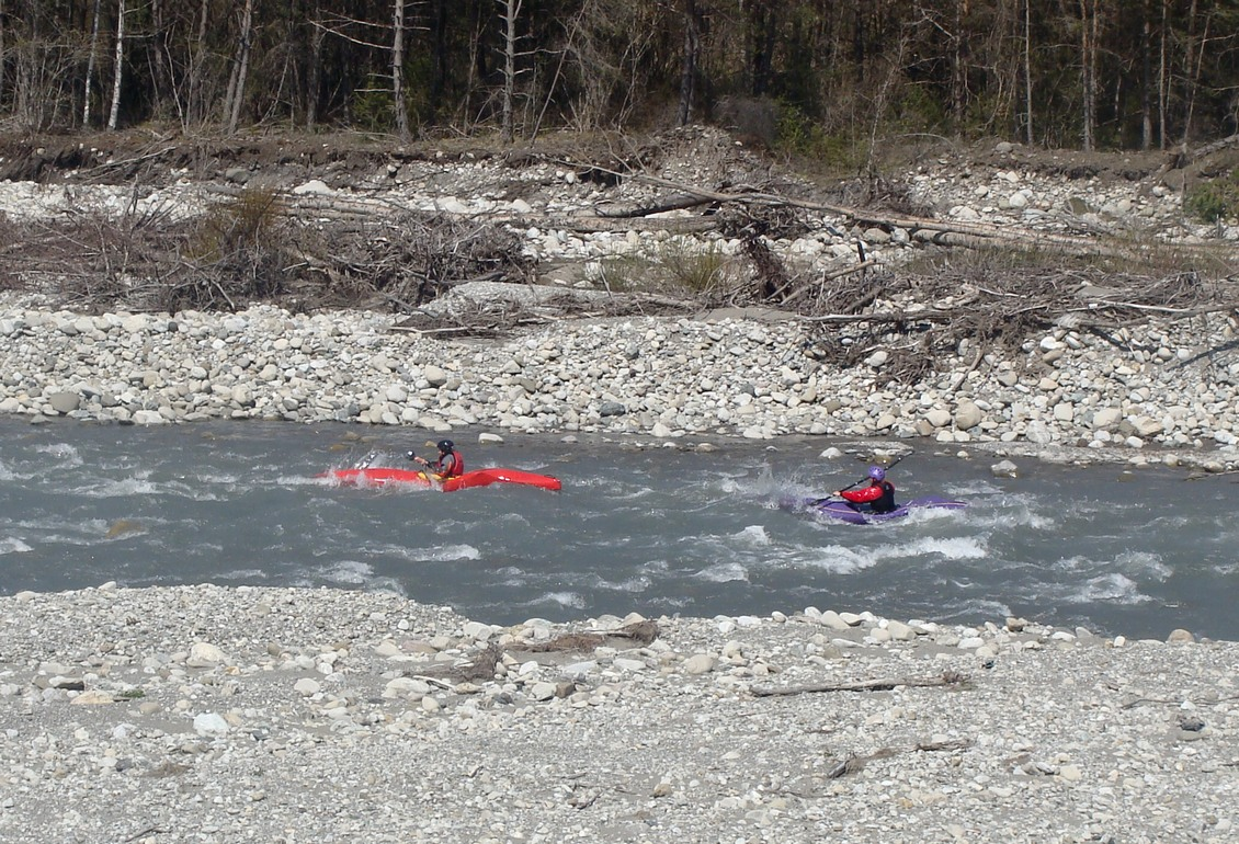 Kayakers on the Drac river in Hautes-Alpes department (France).